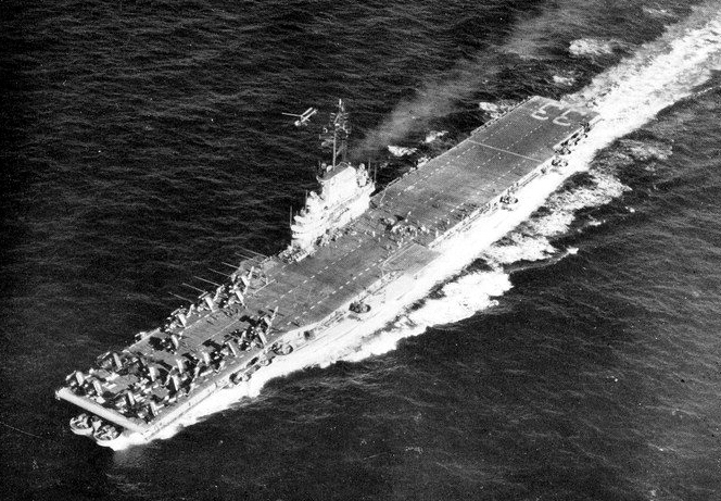 The U.S. Navy aircraft carrier USS Kearsarge (CVA-33) underway following her SCB-27A conversion. Kearsarge, with assigned Carrier Air Group 101 (CVG-101), was deployed to Korea from 11 August 1952 to 17 March 1953.